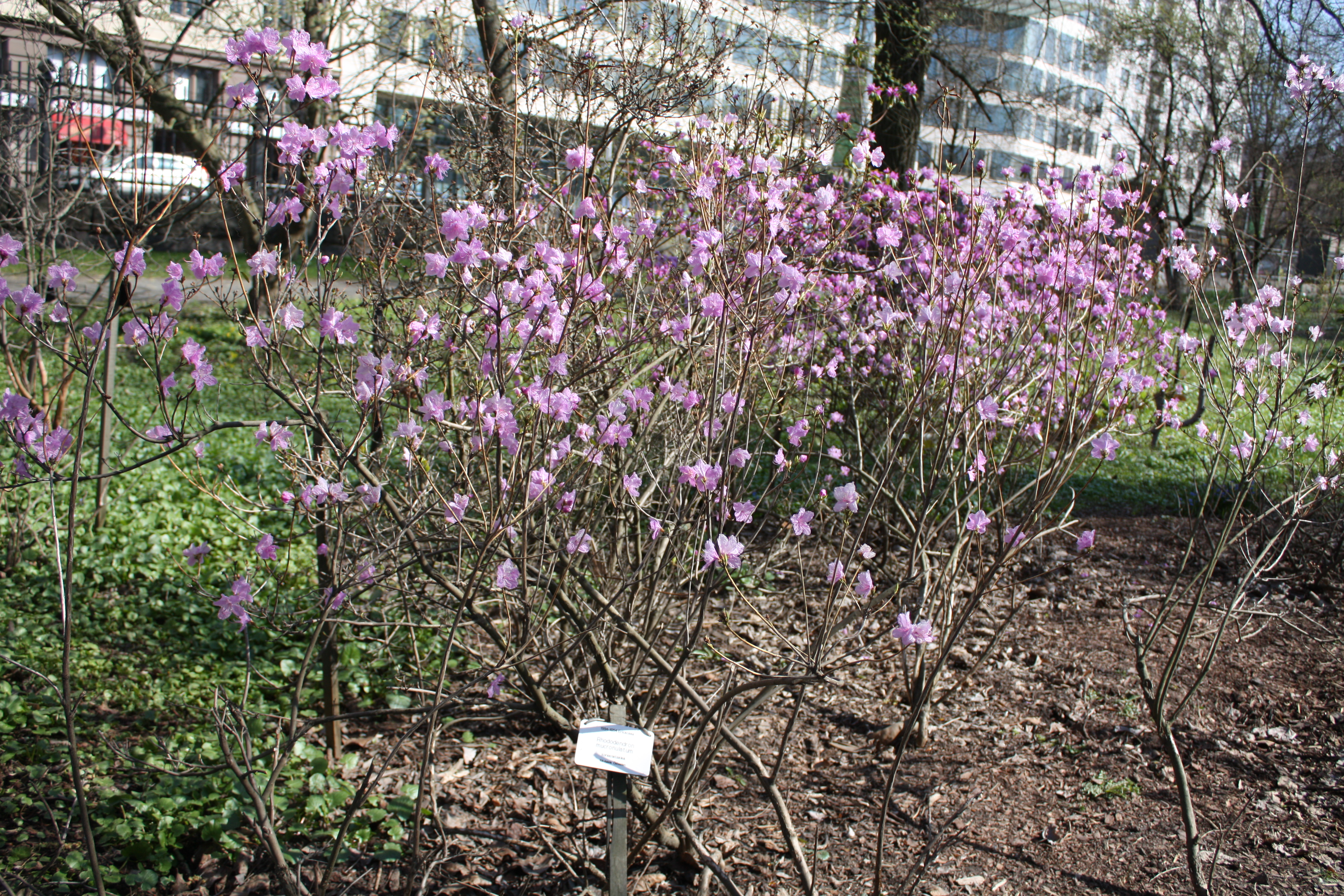 Rhododendron mucronulatum in The University of Helsinki Botanical Garden in Kaisaniemi